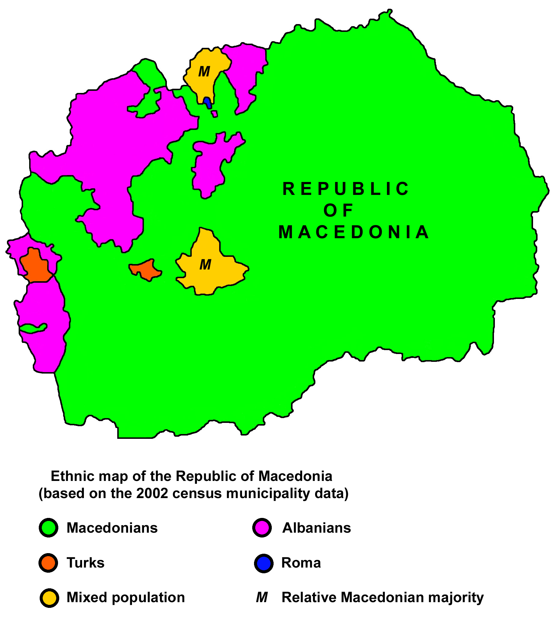 ethnic map of the Republic of Macedonia (self made)